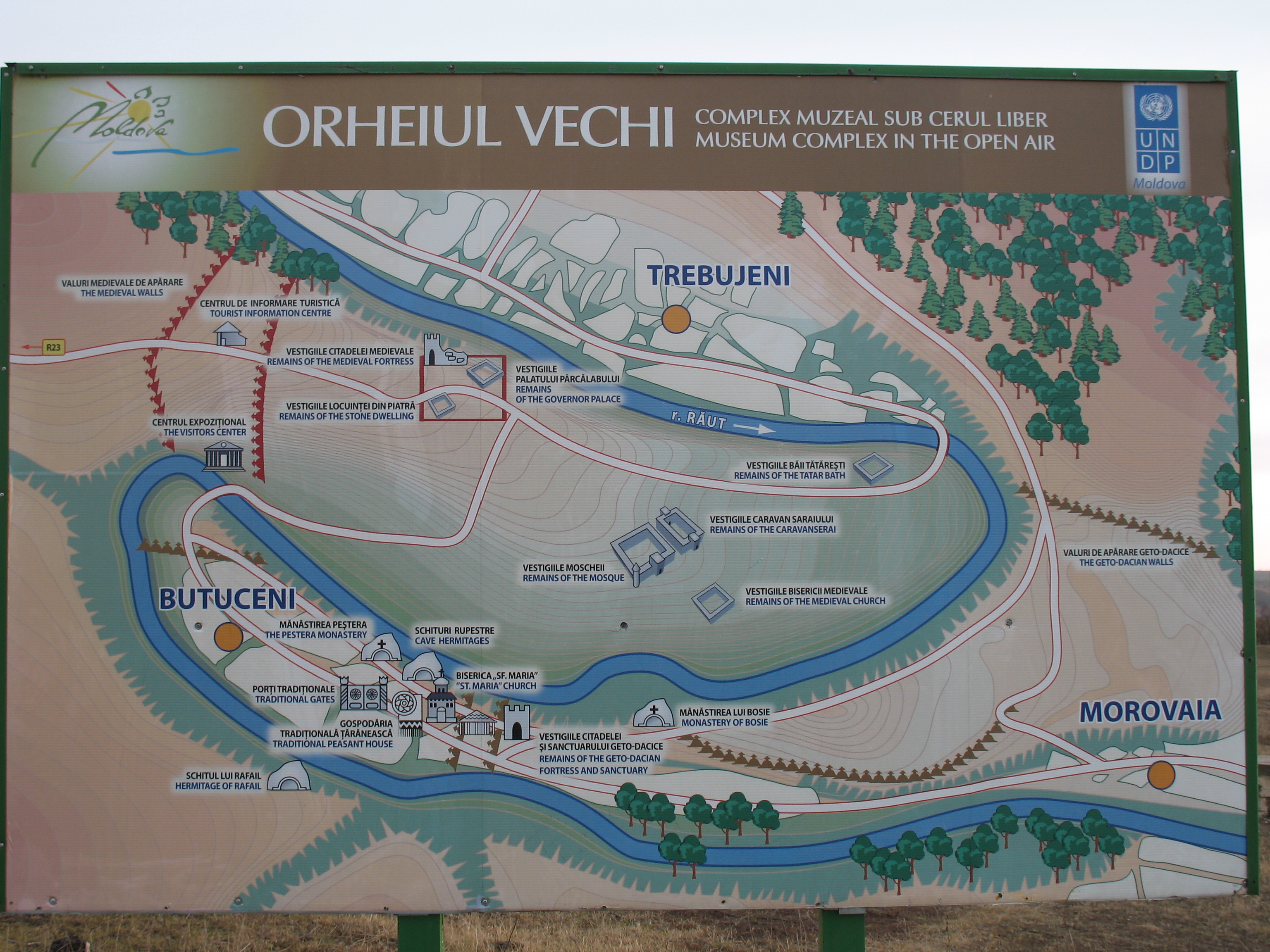 Map of Orheiul Vechi. Museum complex in the open air. Orhei county, Moldova